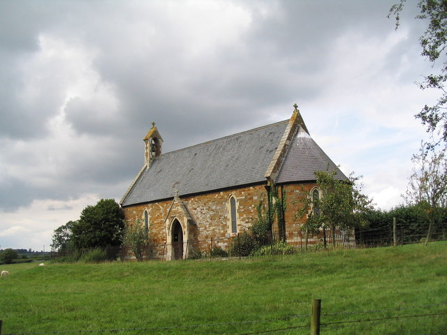 St Giles' parish church, Blaston, Leicestershire, seen from the southeast